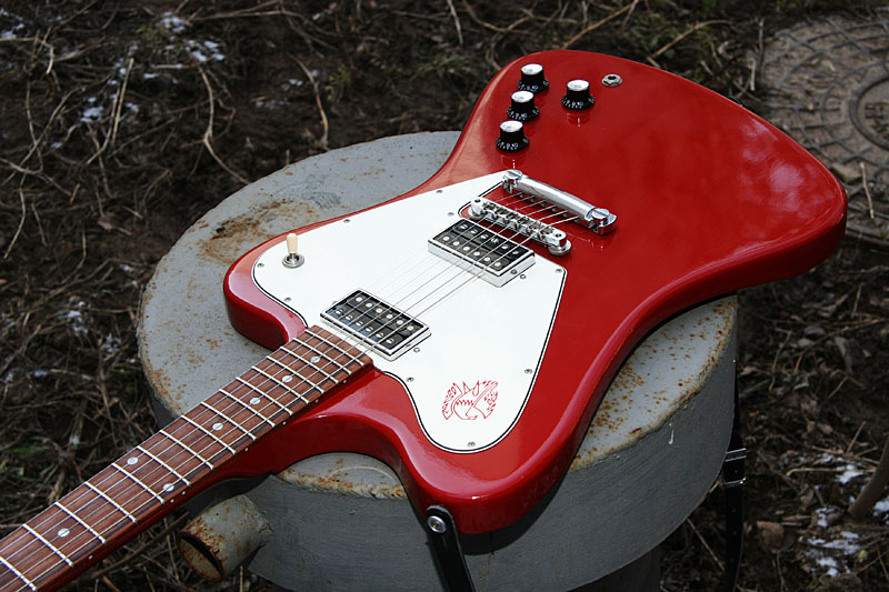 Gibson Firebird non-reverse[1] References ↑ Firebird I, III, V, VII Electric Solidbody. Vintage Guitars Info's Gibson Solid Body Model Descriptions.. Vintage Guitar Info.